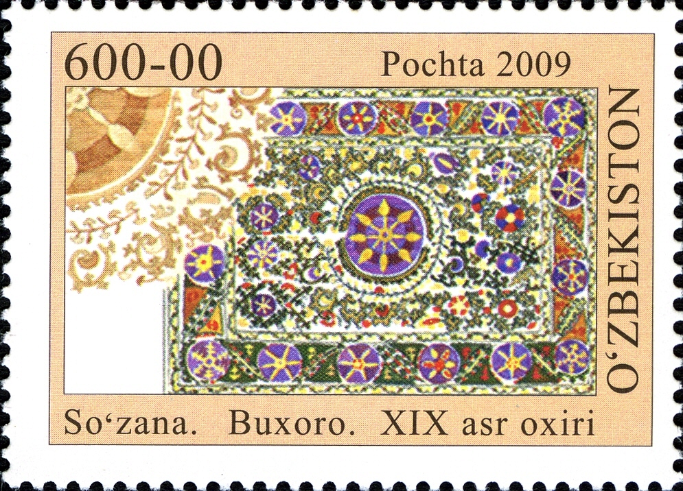 Stamps of Uzbekistan, 2009